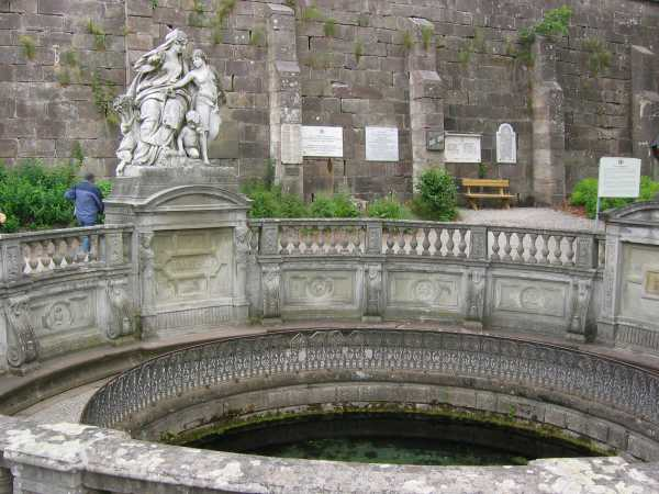 The symbolic source of the Danube in the palace garden of Donaueschingen.